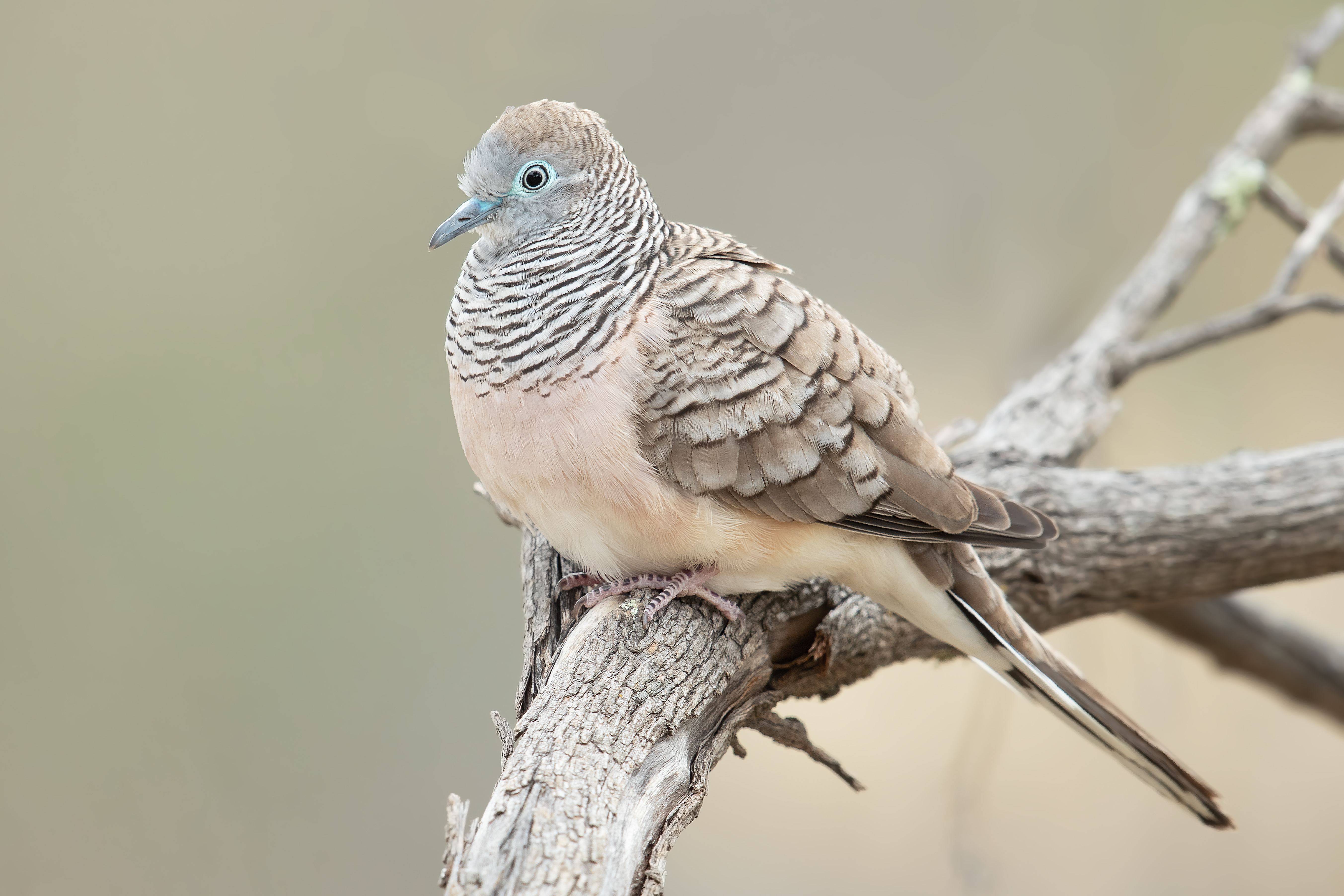 Peaceful Dove, Geopelia placida, Glen Davis, Lithgow, New South Wales, Australia